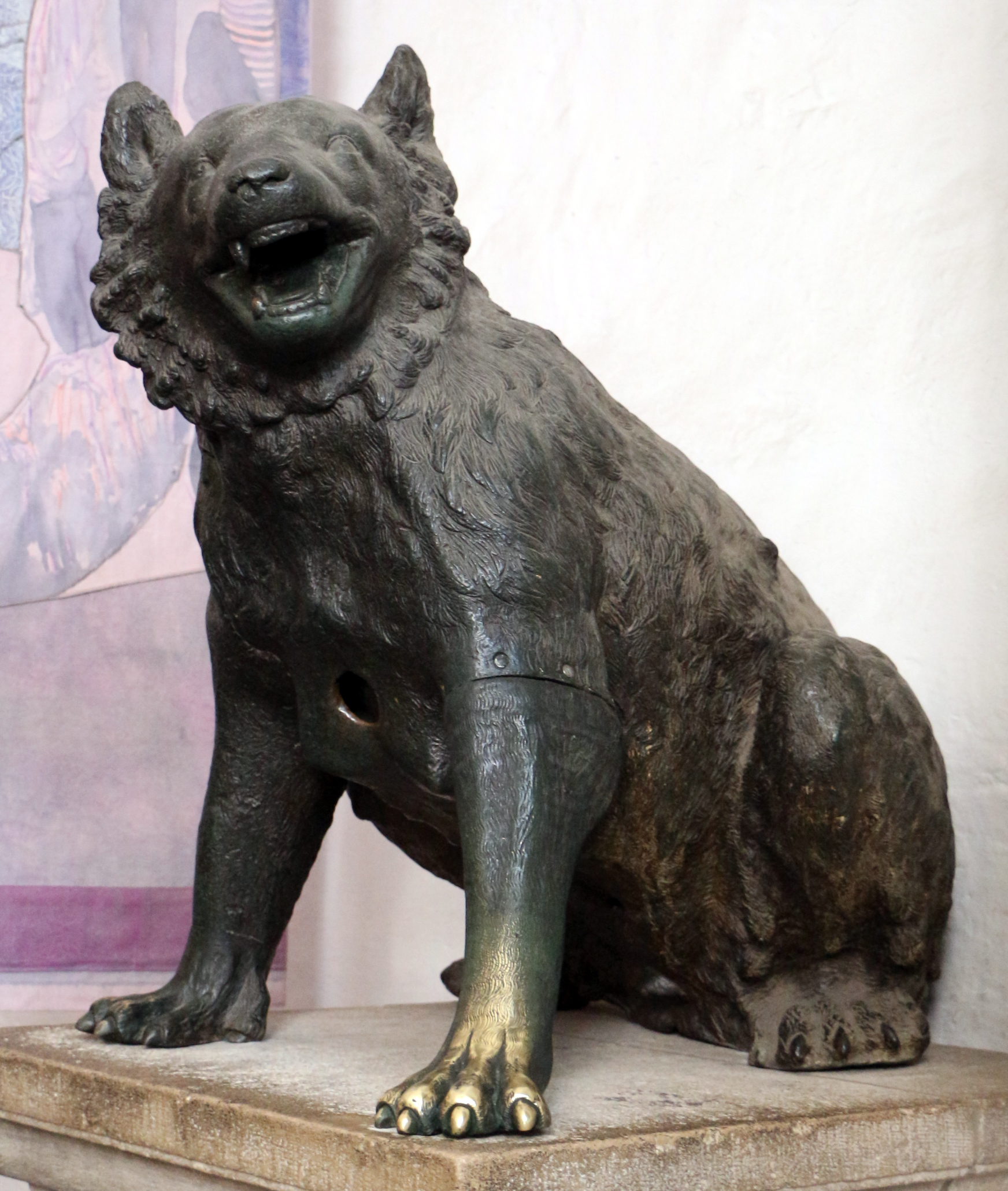 Aachen Cathedral